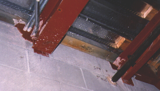 Combination firestop with firestop mortar and a steel beam penetrating the same opening, plus a caulked pipe penetration.